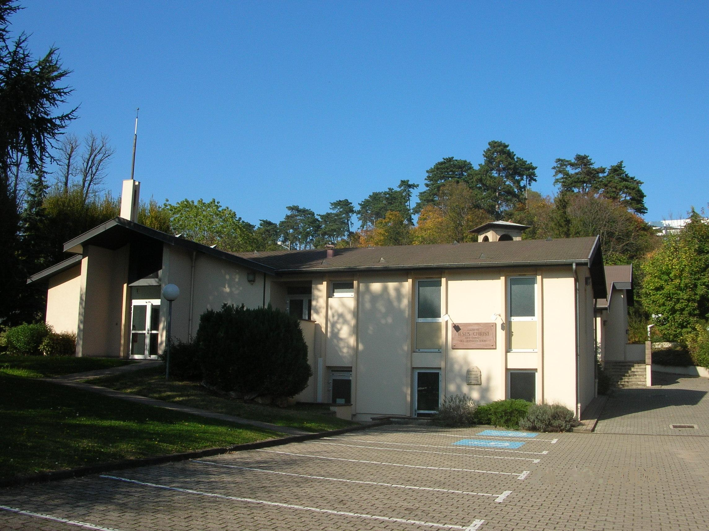 A meetinghouse of The Church of Jesus Christ of Latter-day Saints in Ecully, France.